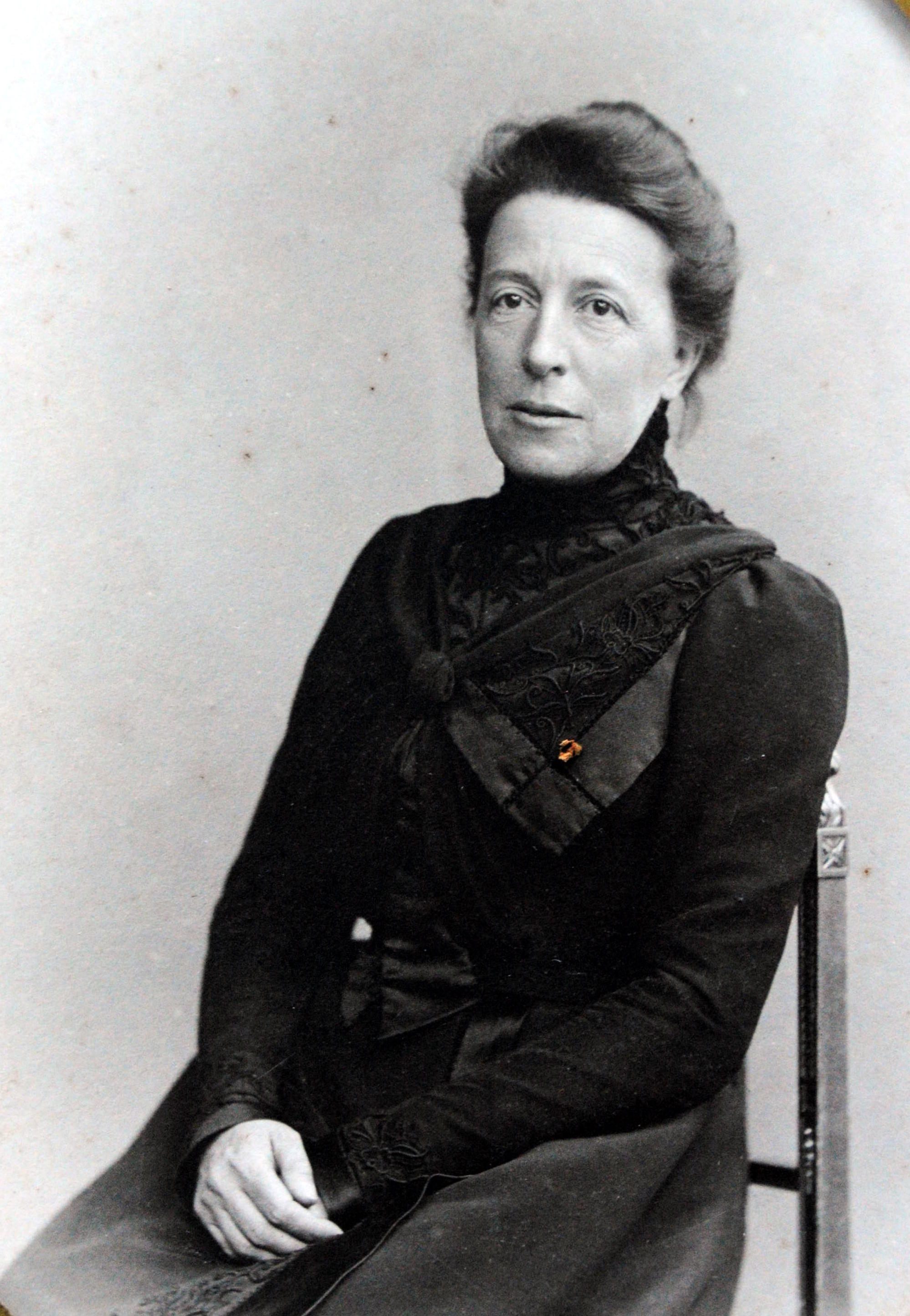 Photograph of Emily Shanks from the photo album of the Shanks family. Probably dates from around 1900.